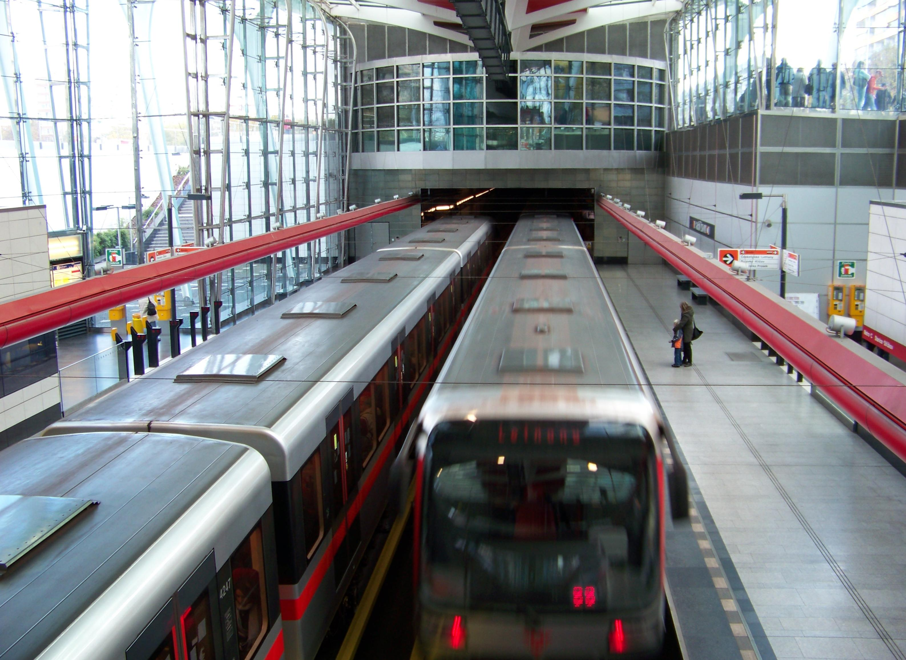 Prague-Střížkov-Prosek Housing Estate, the Czech Republic. Střížkov metro station. Trains at the station.